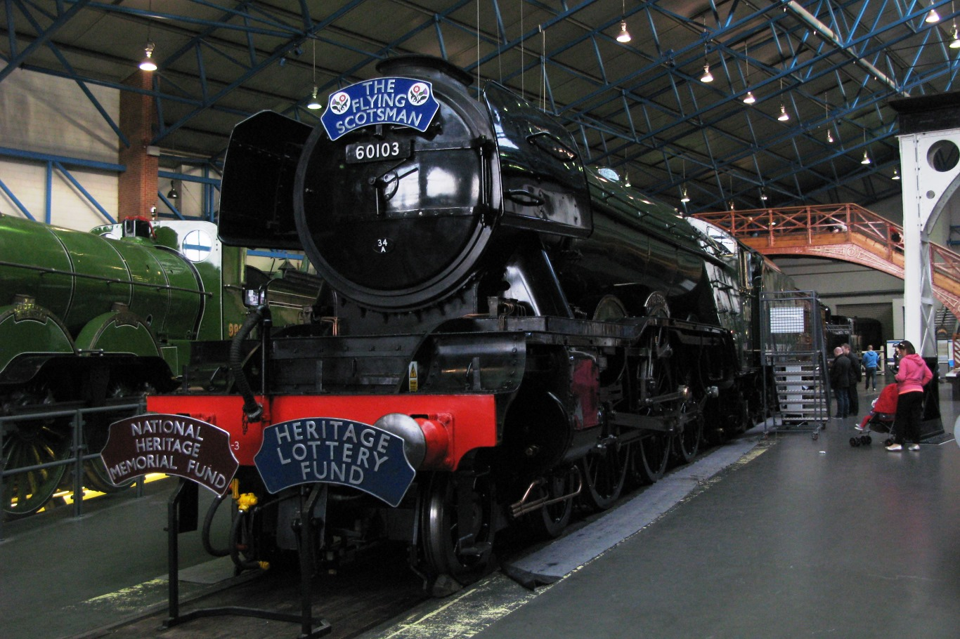 60103 Flying Scotsman on display in the Great Hall of the National Railway Museum at York in 2016 after an extensive and expensive overhaul.